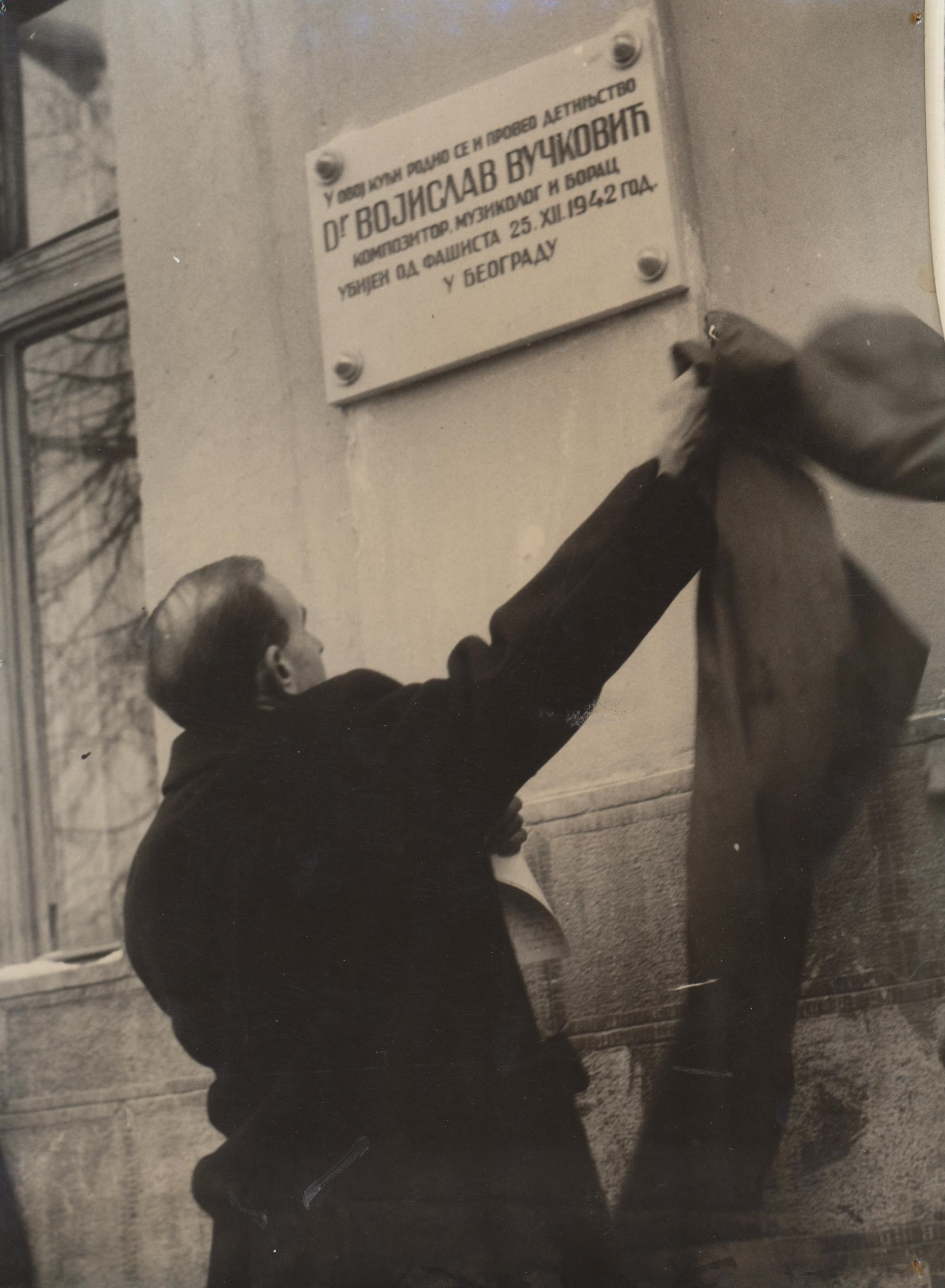 Discovering the monument to Vojislav Vuckovic in Pirot in 1966